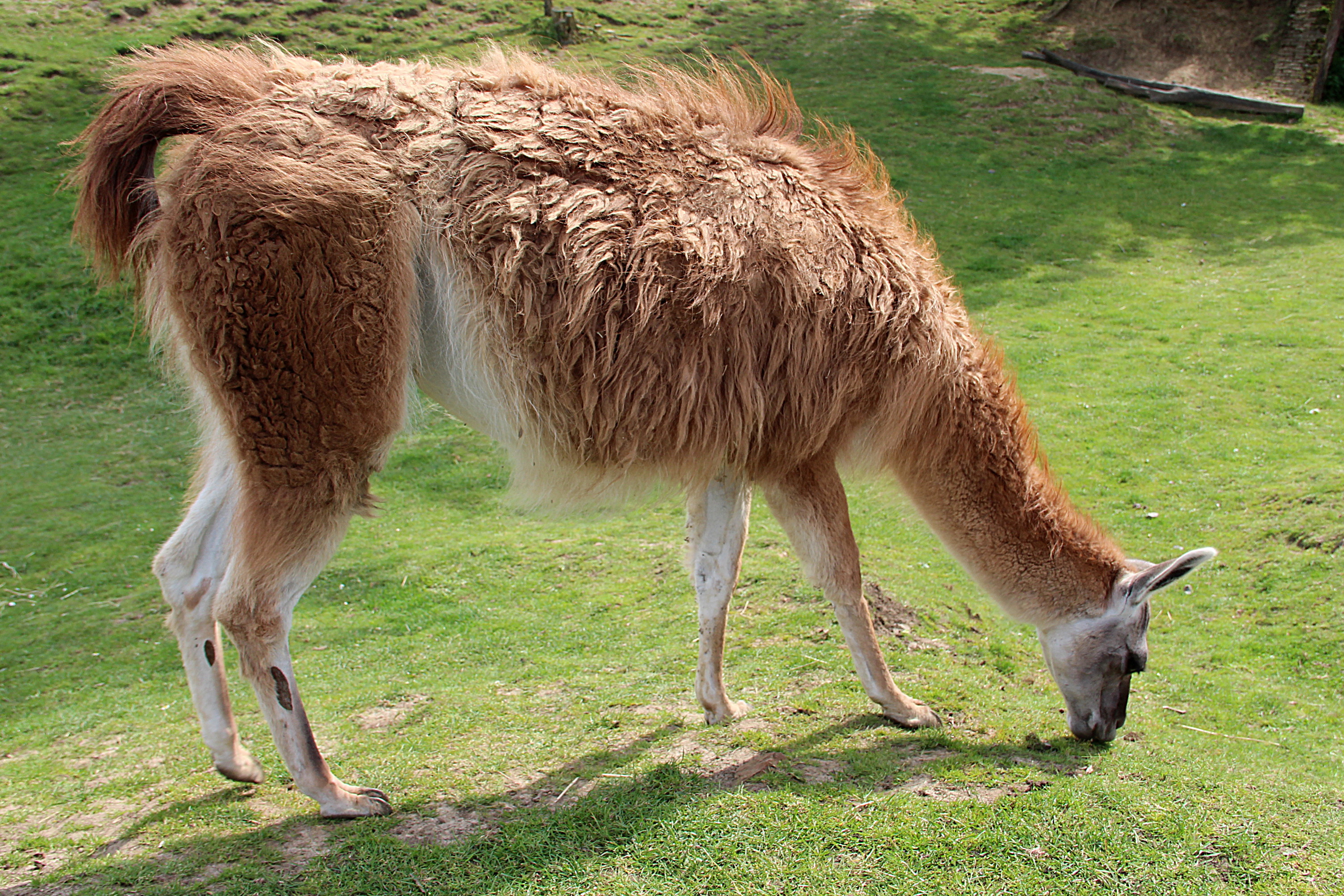 Llama